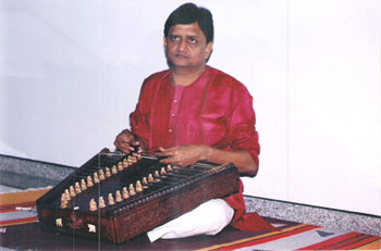 Santoor, string musical instrument hit by Wooden Sticks, being played by Pandit Ulhas Bapat